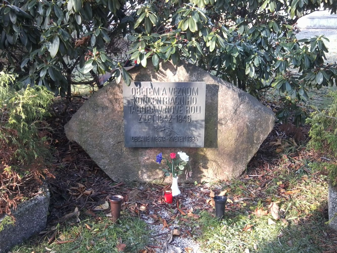 Memorial of the concentration camp in Nová Role.